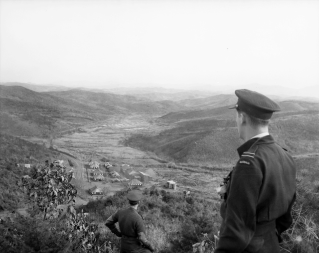 Korea: 38th Parallel. Flight Lieutenant (Flt Lt) R Boyd (left), of Sydney, NSW, RAAF Transport Flight at Iwakuni, Japan, looks out over the demilitarised zone towards Communist positions while on a visit to Australian forces serving on the Korean truce line. In front of him is an unidentified member of the 1st Battalion, The Royal Australian Regiment (1RAR).